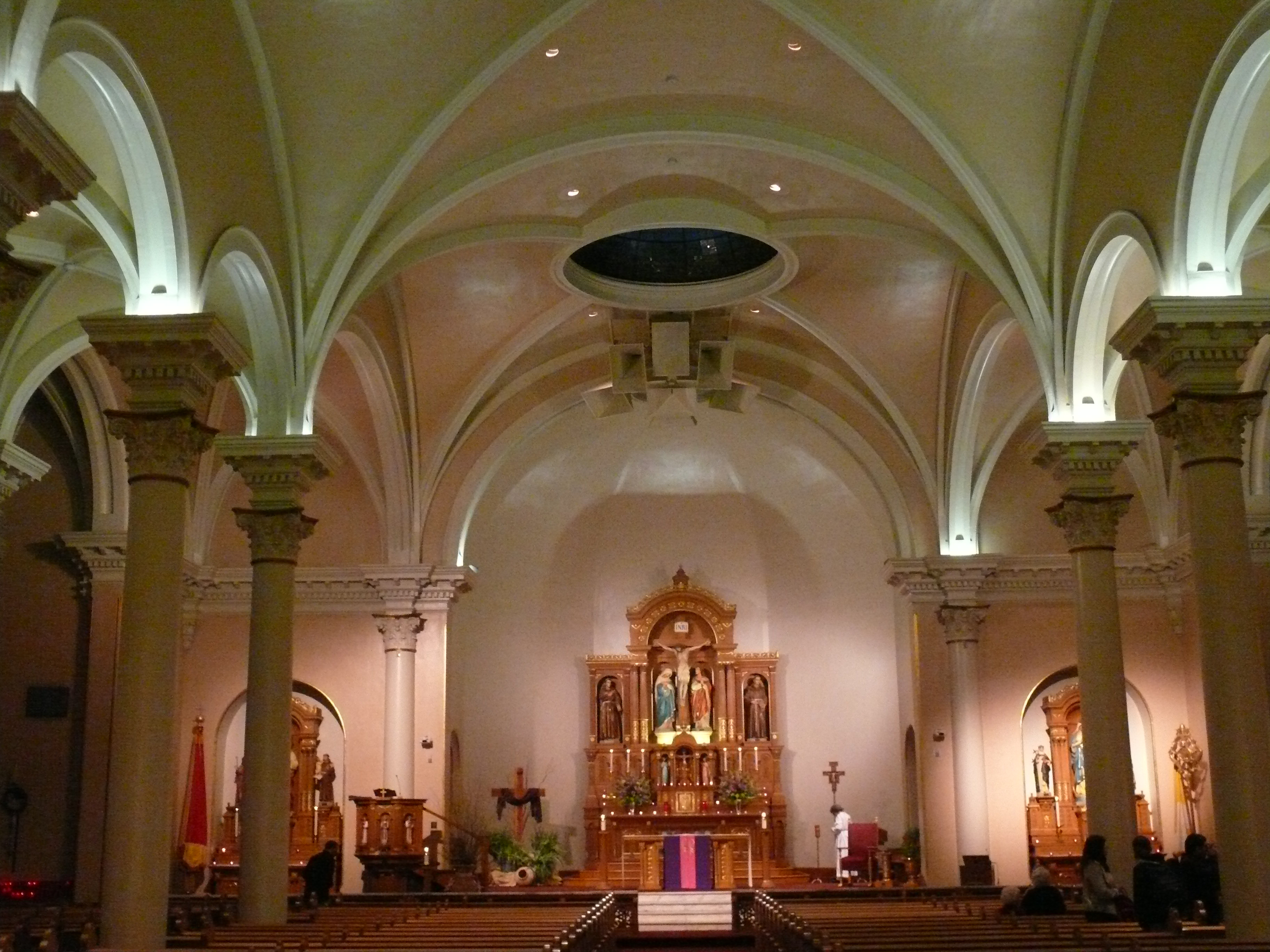 Saint Mary's Basilica in Phoenix (Arizona, USA).